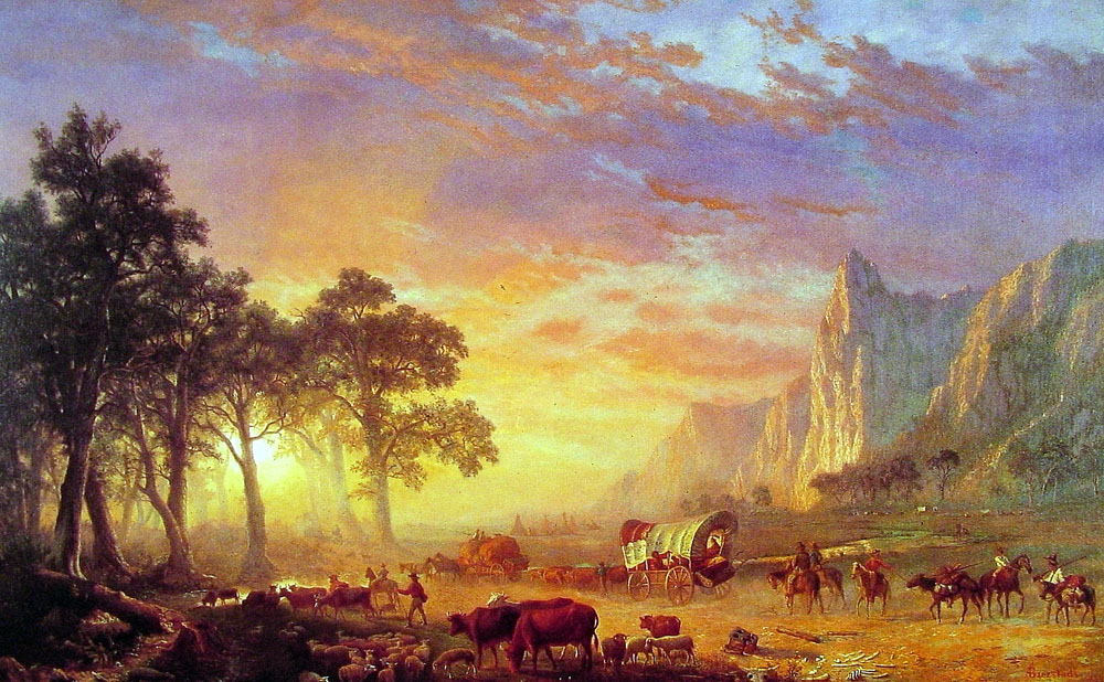 Albert Bierstadt (American, born in Solingen, Germany 1830-1902), The Oregon Trail, 1869, oil on canvas, 31 x 49 inches, Boca Raton Museum